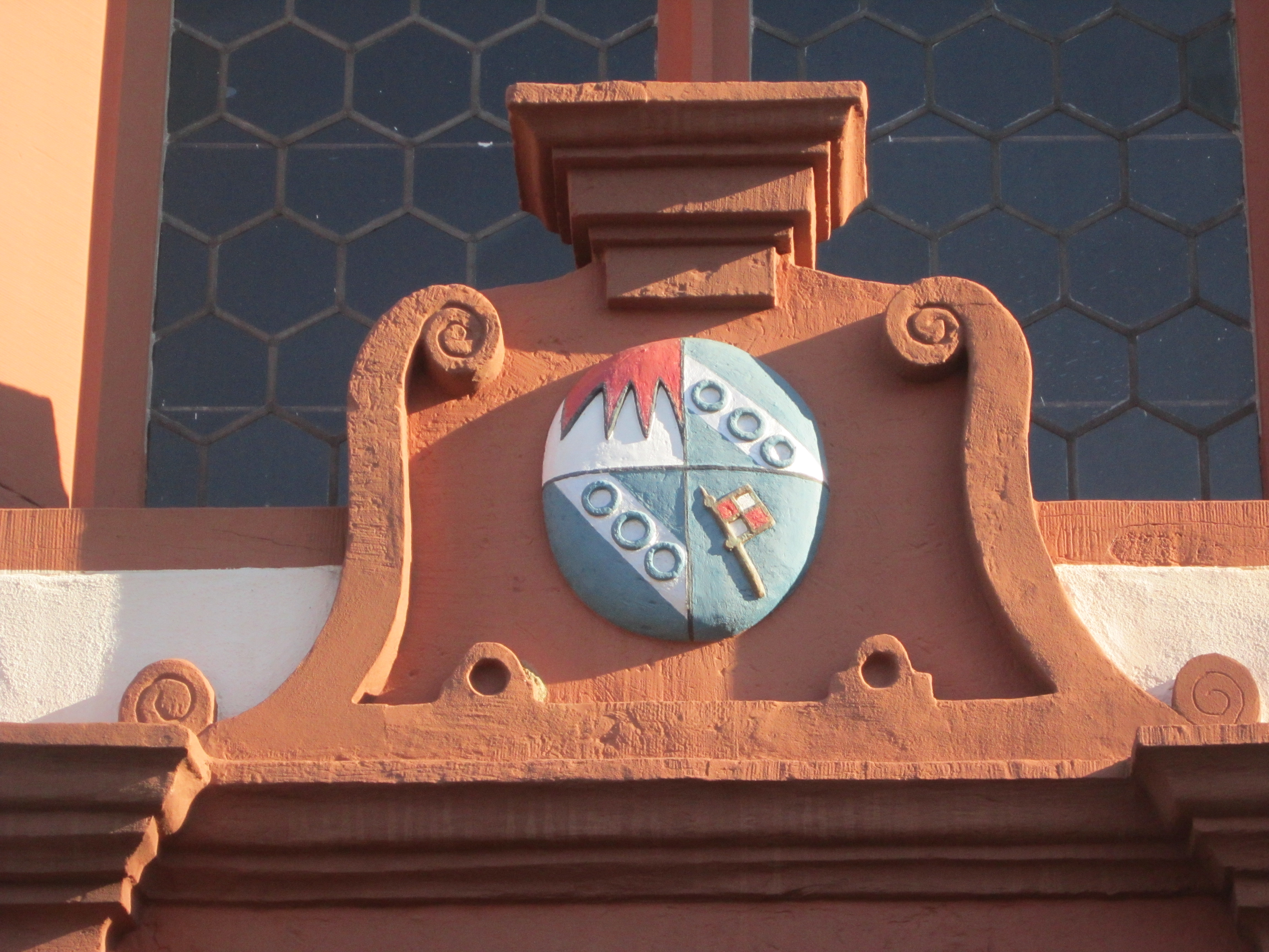 Emblem of Prince-Bishop Julius Echter of Mespelbrunn, the founder of the St.Peter&Paul Church in Arnshausen, a quarter of the German spa town of Bad Kissingen in Lower Franconia.